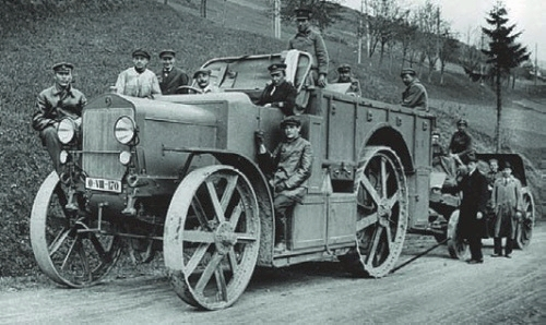 Artillery tractor Skoda U